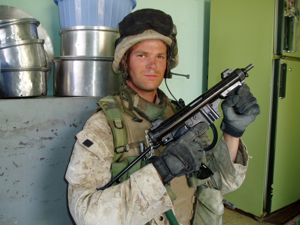 sub-machine gun found in a house at New Ubaydi, Iraq after a very long day of fighting and even longer night awaits.Beretta Mod. 12 S